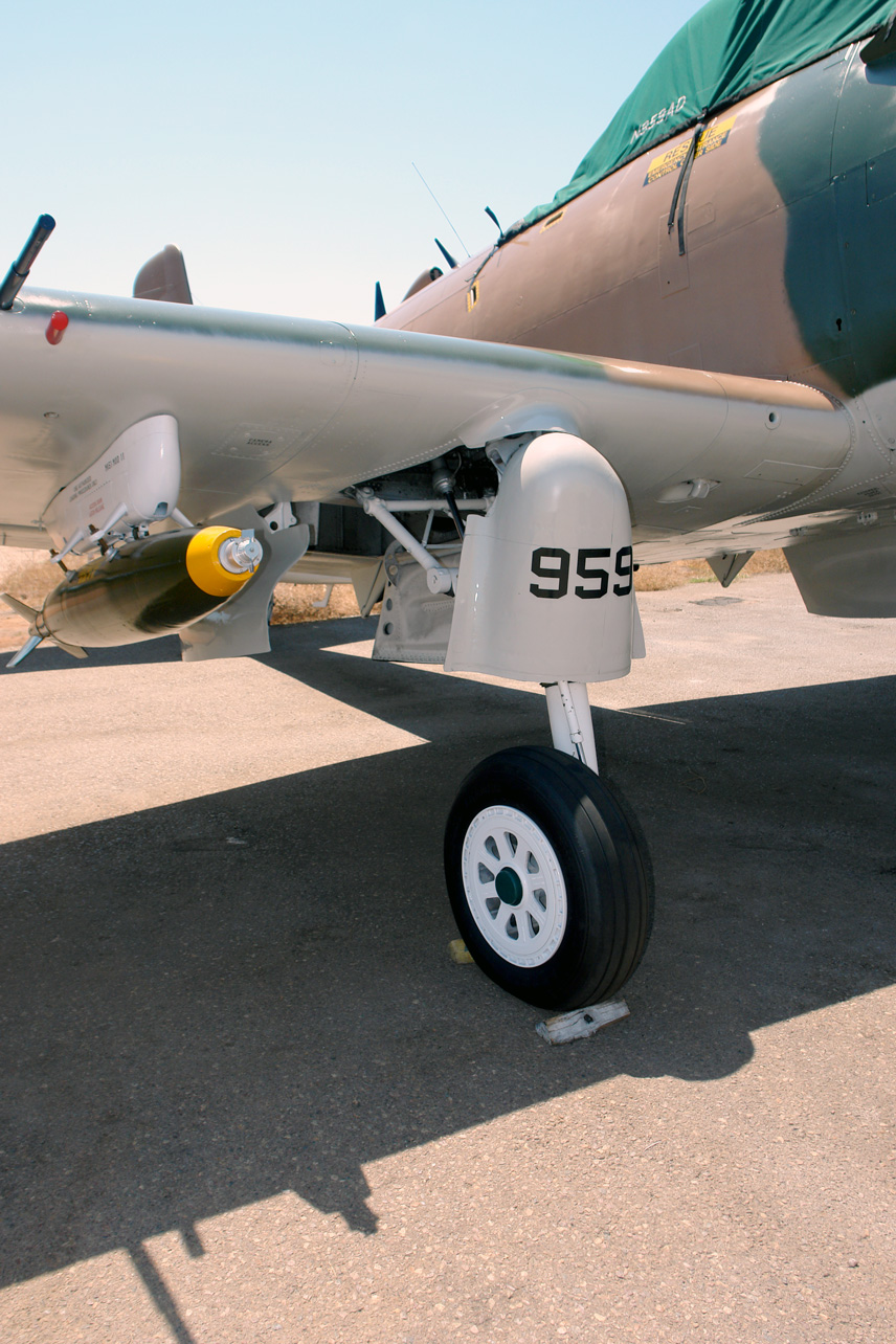 Douglas Skyraider - Main Landing Gear, right side